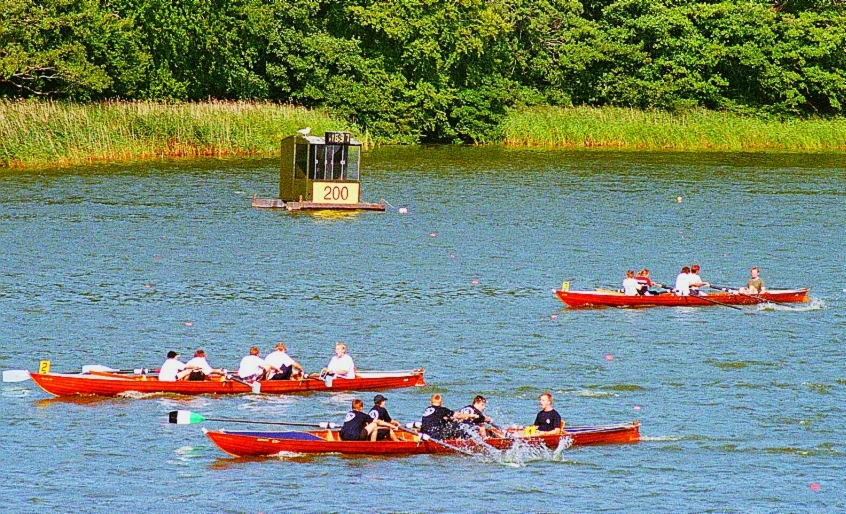 Outrigger rowing local competition on Bagsværd Lake 25 Aug 2005